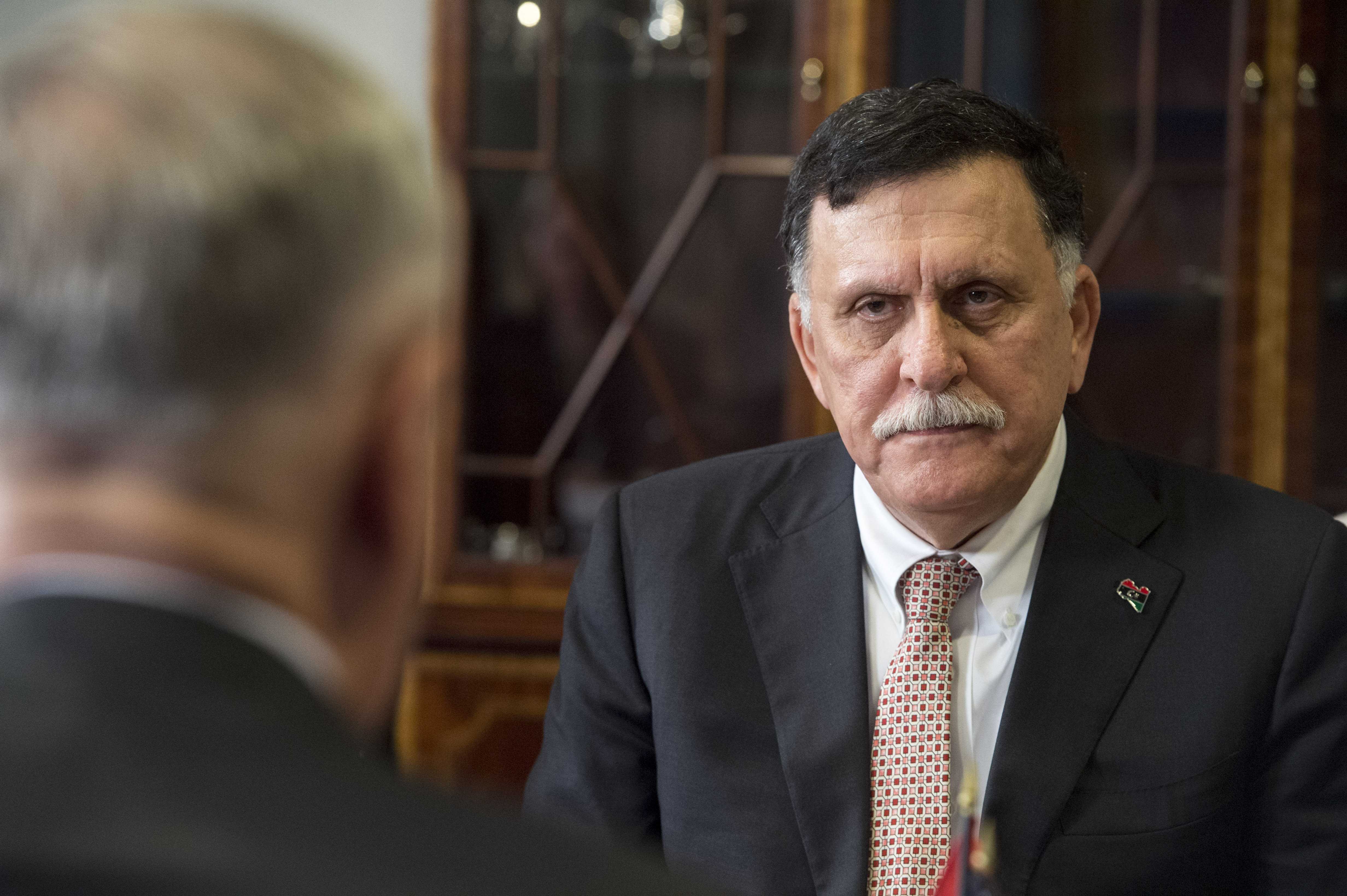 Secretary of Defense James N. Mattis meets with Libya's Prime Minister Fayez Serraj Nov. 20, 2017, at the Pentagon in Washington, D.C. (171130-D-GO396-0100)